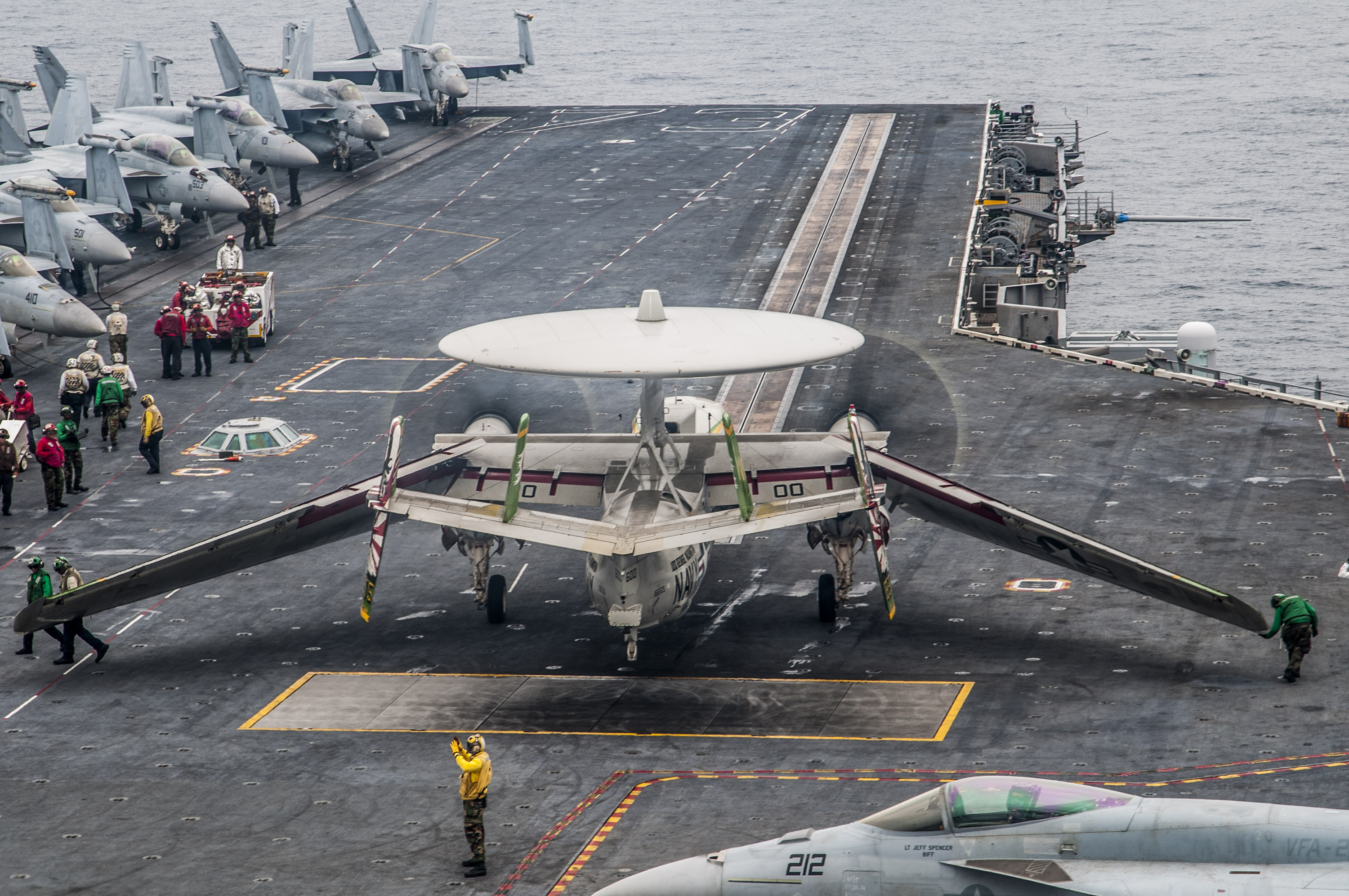 A Northrop Grumman E-2C Hawkeye (BuNo 166505) from Airborne Early Warning Squadron (VAW) 115 "Liberty Bells" prepares to launch from the flight deck of the U.S. Navy's forward-deployed aircraft carrier USS George Washington (CVN-73) in the waters west of the Korean peninsula.